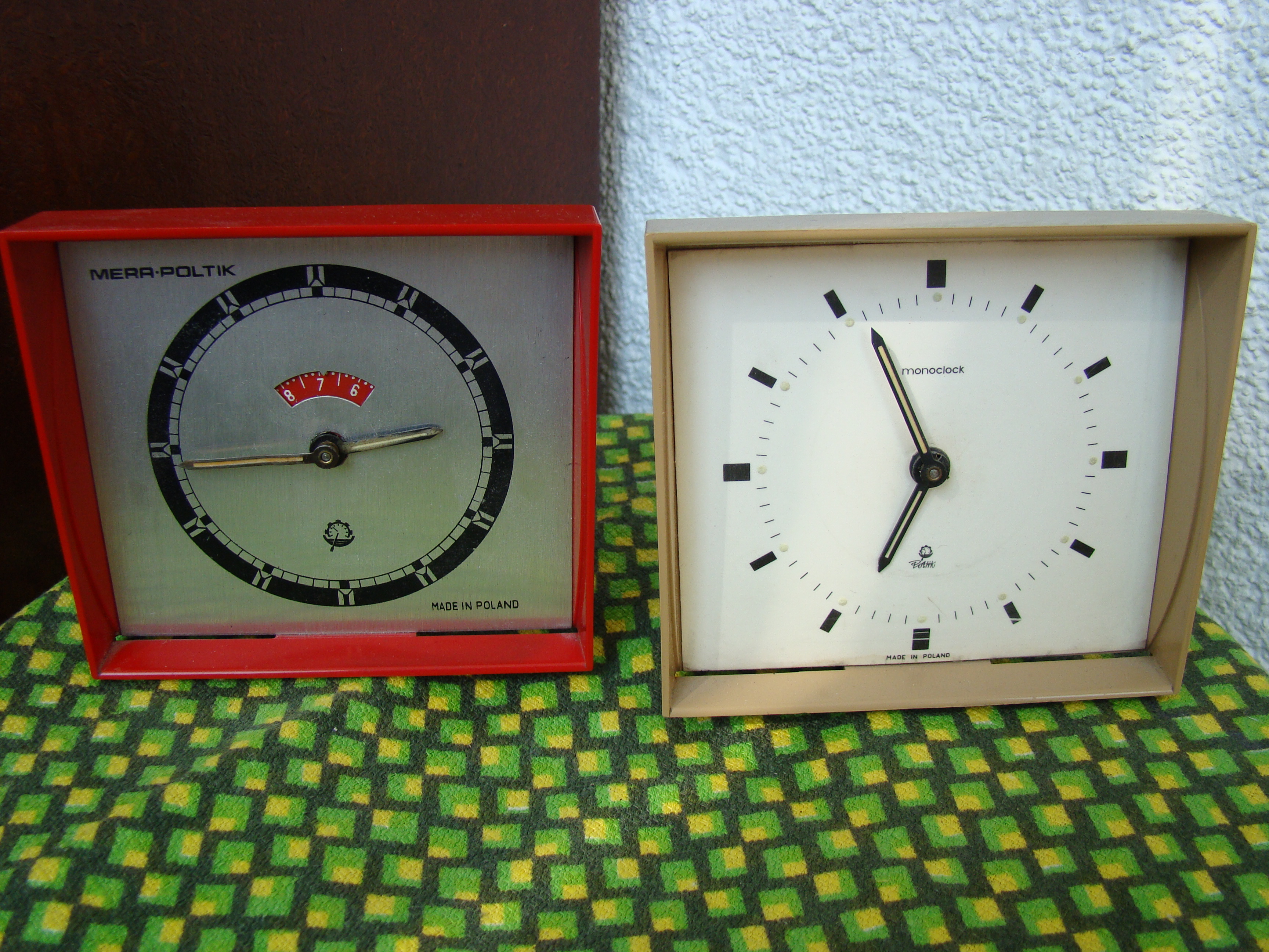 Clocks Mera Poltik